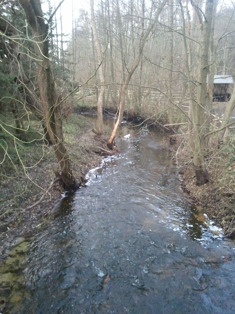 River Lößnitz near Güstrow in Germany, Mecklenburg-Vorpommern